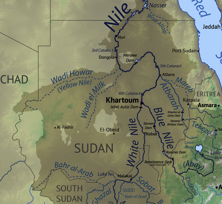 Mape of Nile in Sudan